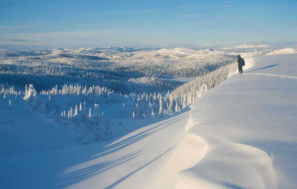 Skier scouting the terrain near Langseterfjell in Trillemarka-Rollagsfjell, Norway